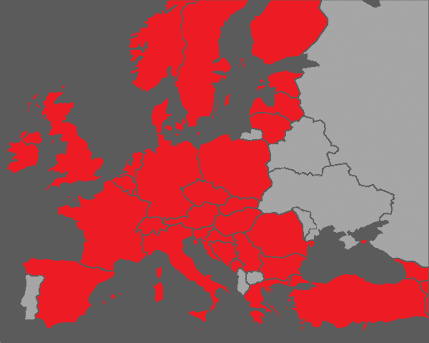 Map of countries where SPORT 2000 is active.